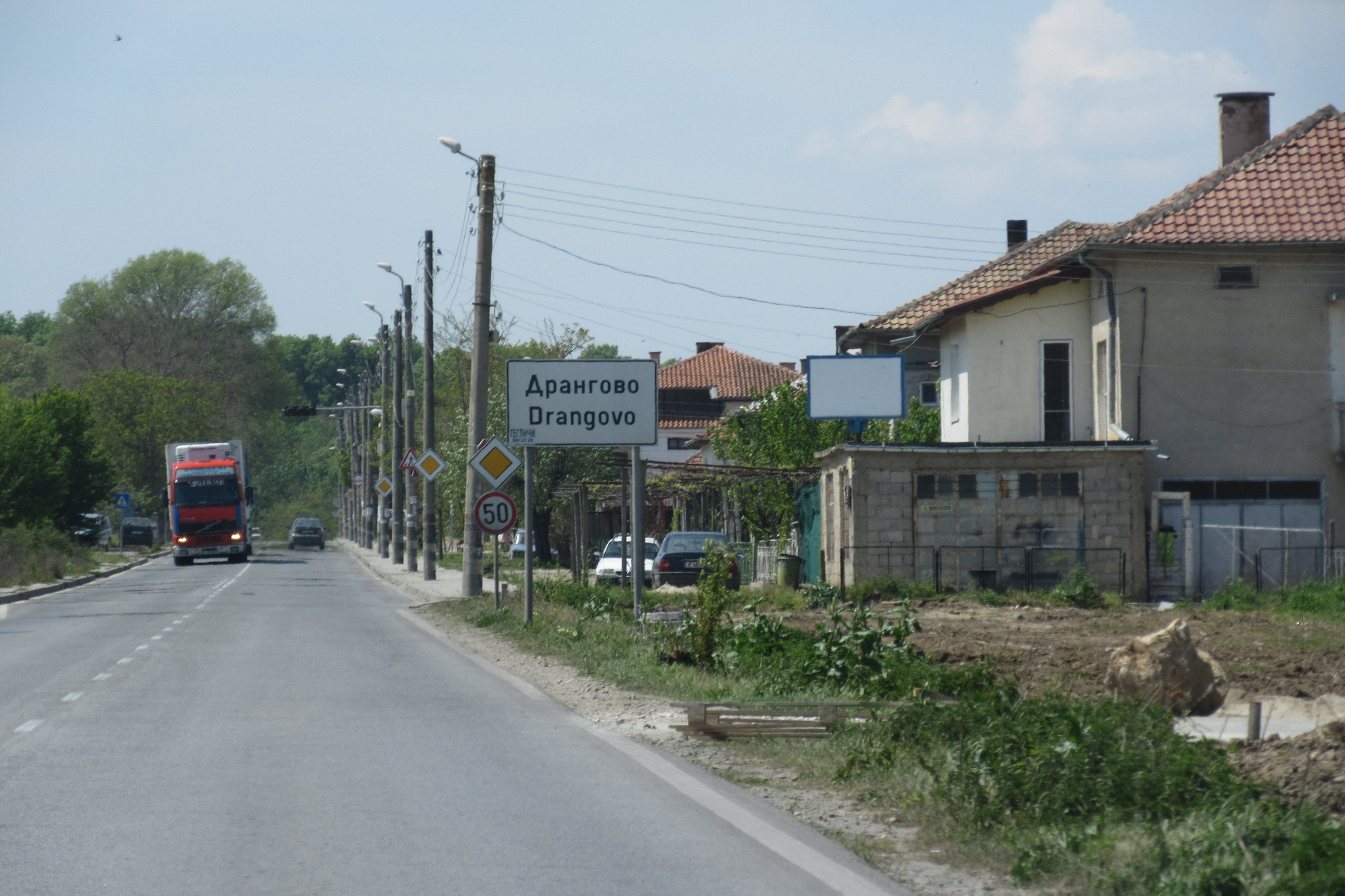 Drangovo entrance from the Petrich-Gotse Delchev road